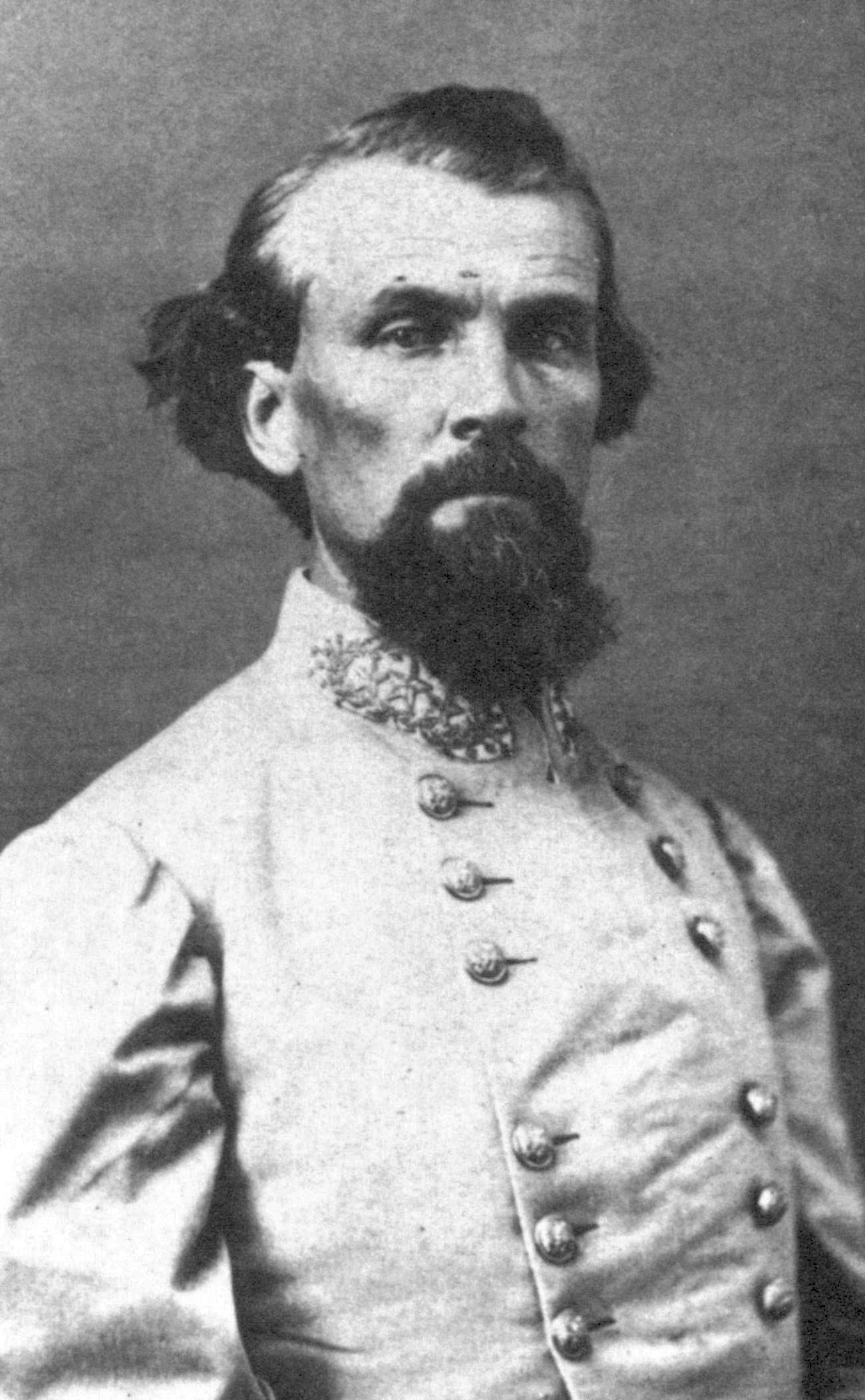 Nathan Bedford Forrest (1821-1877)